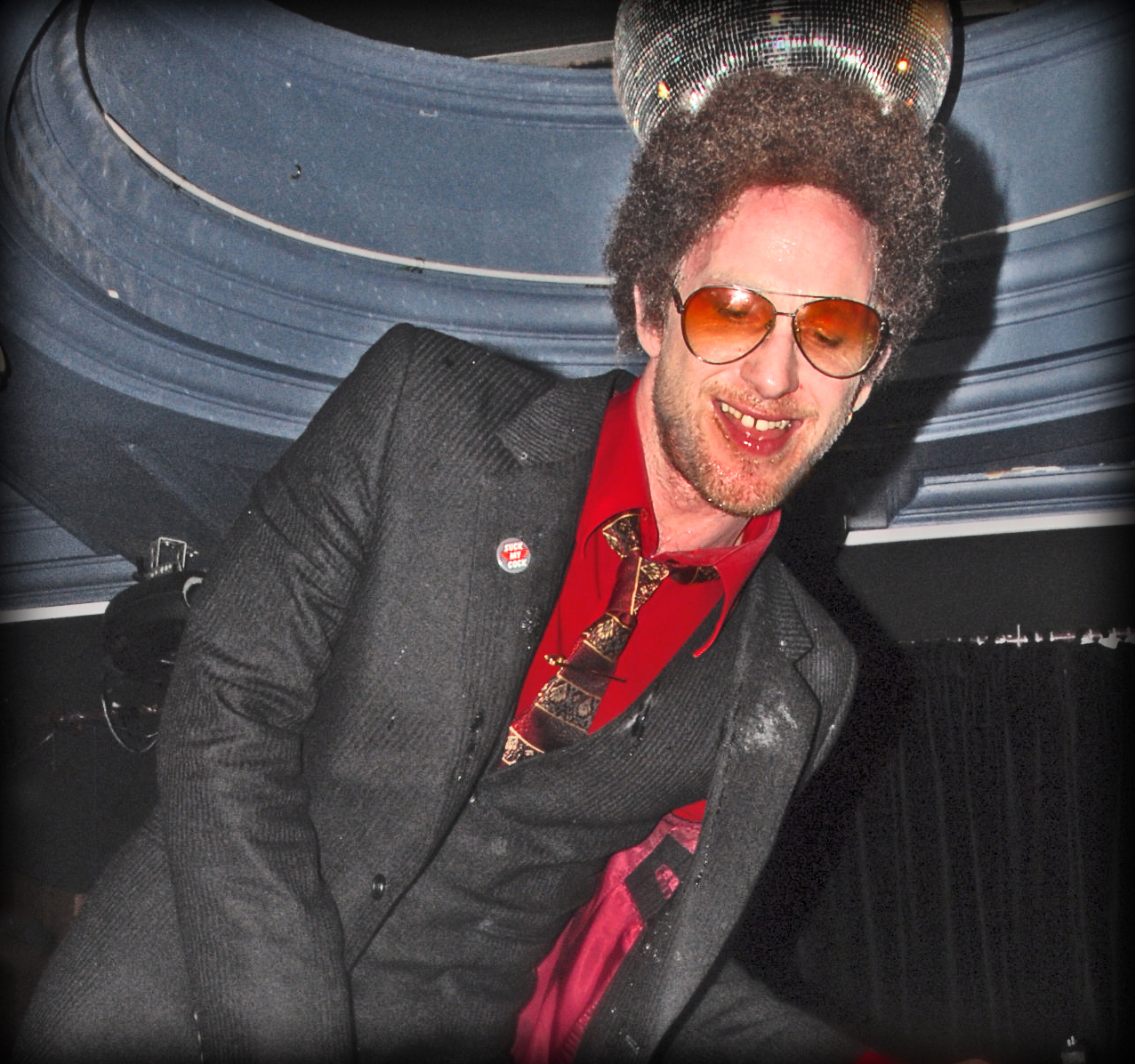 Paul Kaye as Mike Strutter Kilburn London